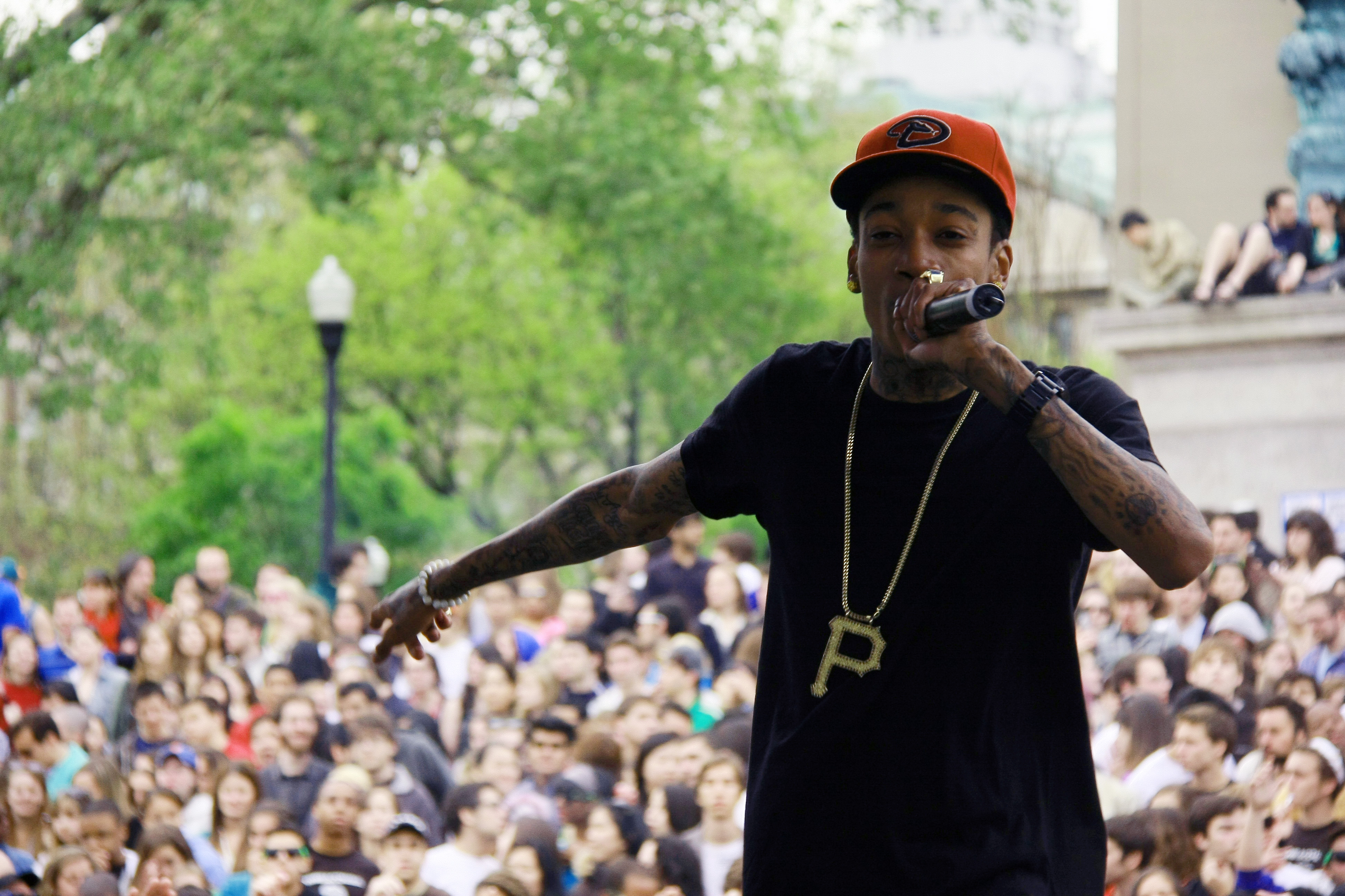 Rapper Wiz Khalifa performing at Columbia University's annual spring concert for Bacchanal in New York City on April 24, 2010.